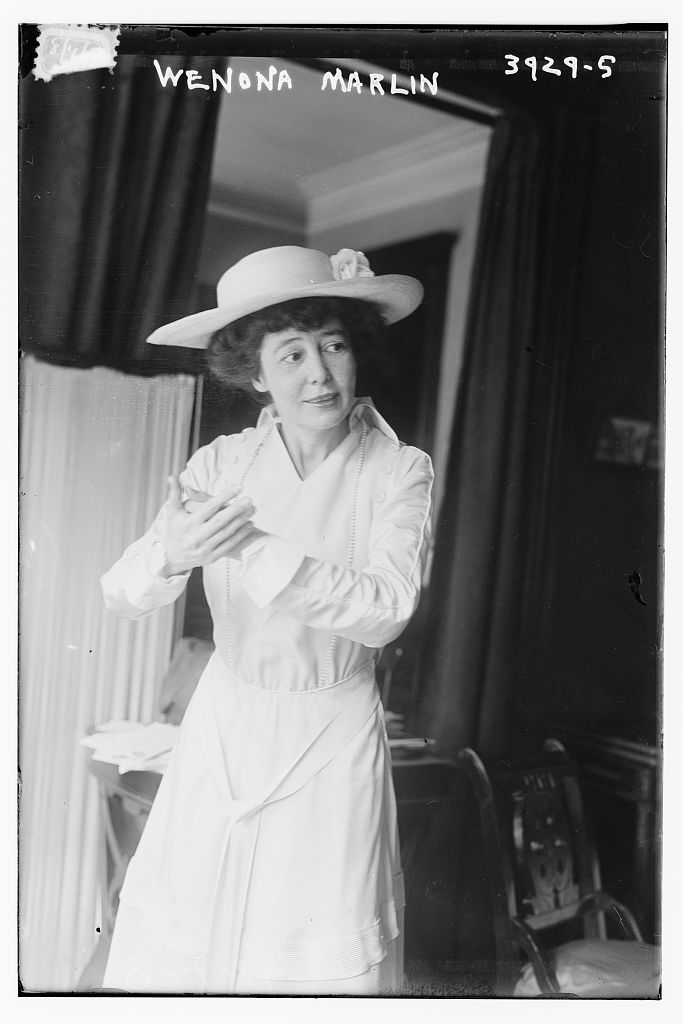 Photograph shows author and suffragist Wenona Marlin. Photograph was published in The Sunday Oregonian, August 20, 1916. (Source: Flickr Commons project, 2014)